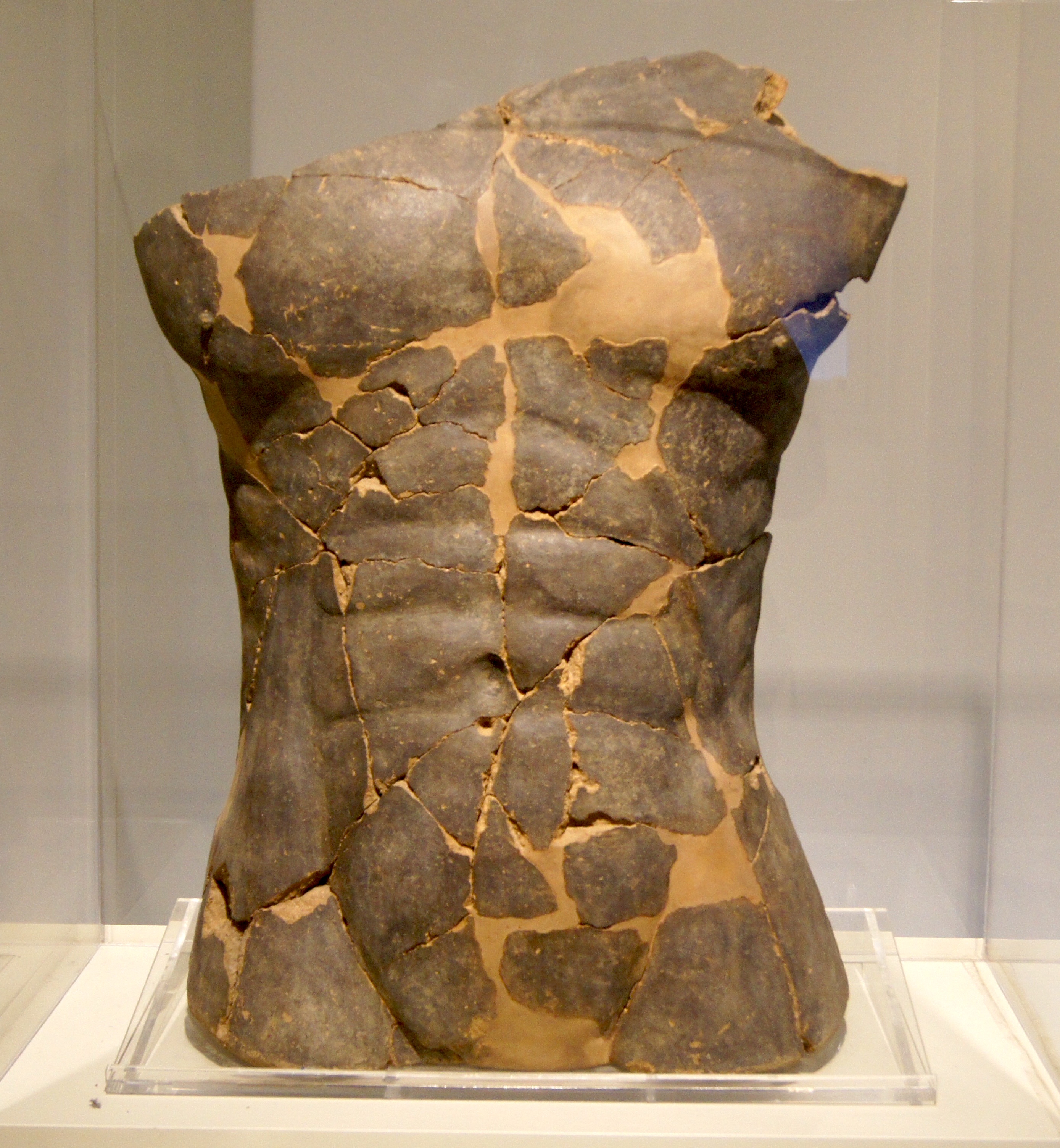 Etruscan male torso from Veii, probably Hercules, 550 BC